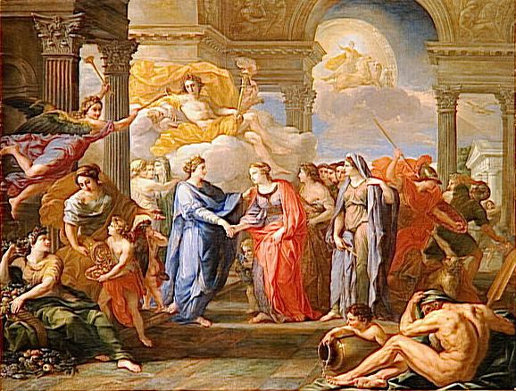 Allegory of the marriage of the Dauphin of France and Maria Anna Victoria of Bavaria